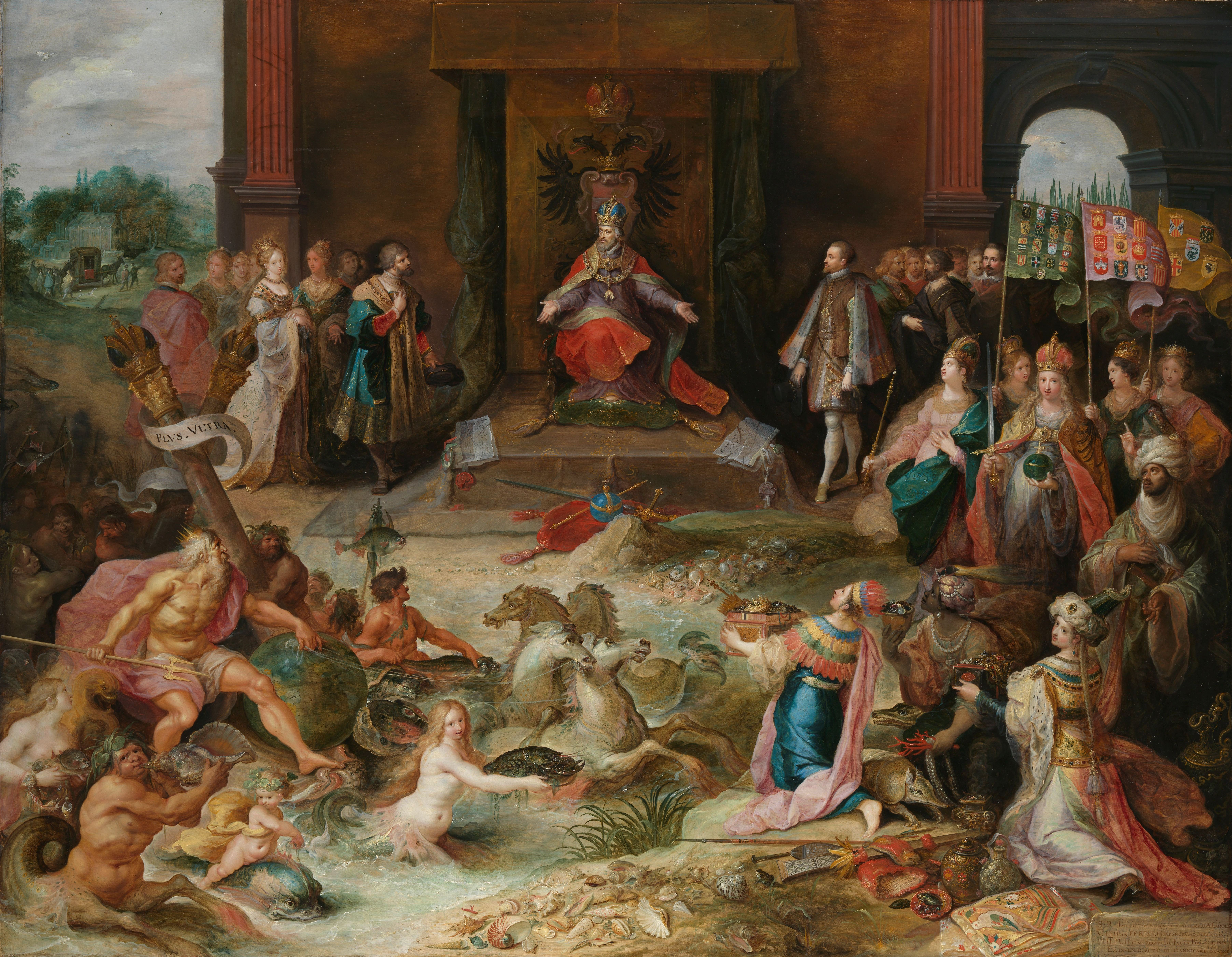 Allegory on the Abdication of Emperor Charles V in Brussels. In the middle Charles V is seated on his thrown flanked by his successors Ferdinand I and Philip II. In front of Philip the personifications of the territories of the Empire with their banners are kneeling down. In the foreground the personifications of the continents, America, Africa, Europe and Asia, are offering gifts. Left Neptune is riding his seahorse-drawn Triumphal chariot, accompanied by mermen, mermaids, tritons, etc. On the chariot a globe and the two columns with a banderole inscribed with Plus Ultra.